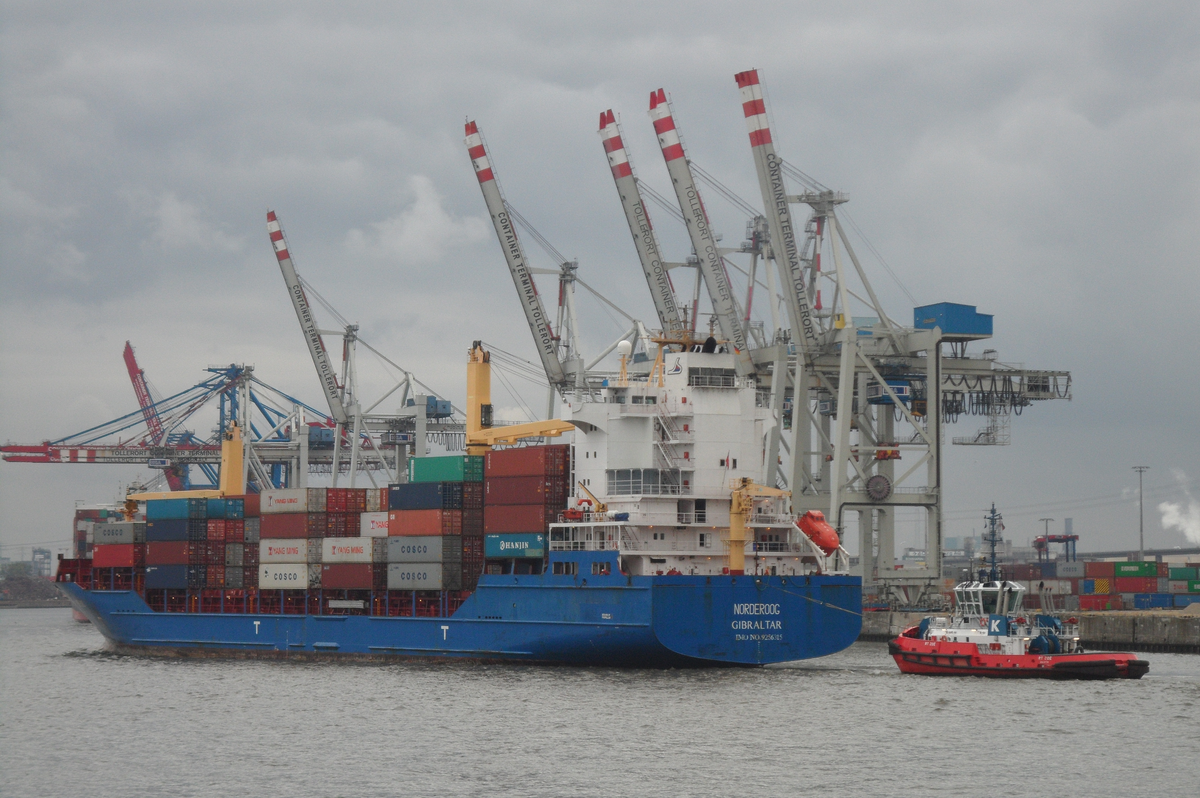 Feeder ship Norderoog - Port of Hamburg, Container Terminal Tollerort